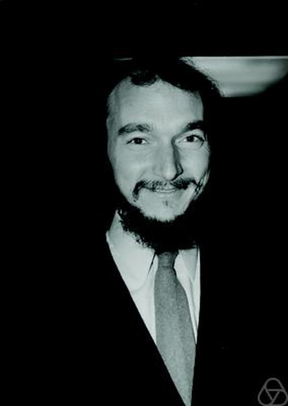 Klaus Leeb, Erlangen 1972